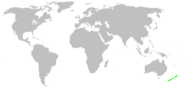 Huttoniidae habitat distribution, drawn after Platnick: World Spider Catalog 7.0. This is not a precise rendering of the distribution! If you have better information, please replace this map, or send me the info, and i will redraw it.